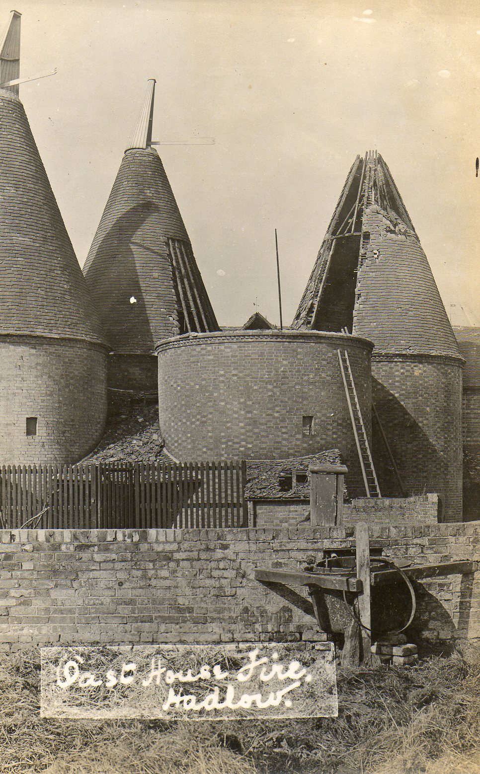 Real photo postcard showing the result of the fire at Castle Farm oast , Hadlow.